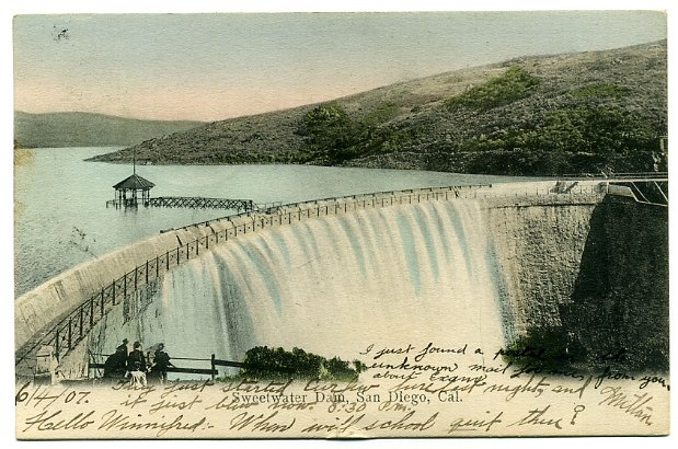 Postcard of Sweetwater Dam at Sweetwater Reservoir on the Sweetwater River in San Diego, California. Store Web page states: "Description: 1907 R.P.O. postmark / Size: 3-1/2 x 5-1/2"" I can tell you, now, a hundred years later, it hasn't changed all that much.